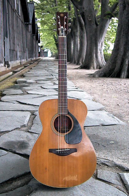 Yamaha Acoustic Guitar FG-150 1969model